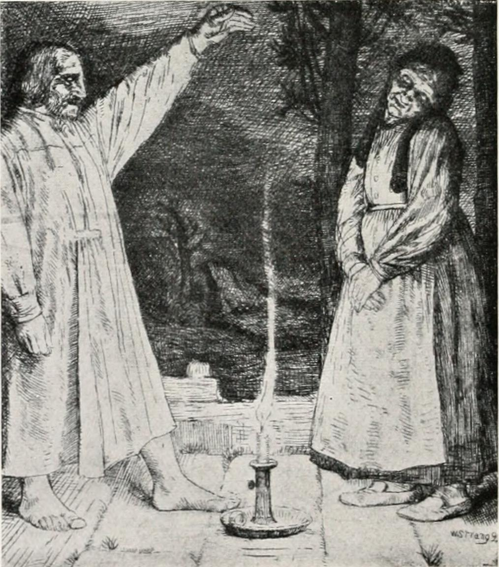 Identifier: williamstrangcat00stra Title: William Strang; catalogue of his etched work Year: 1906 (1900s) Authors: Strang, William, 1859-1921 Binyon, Laurence, 1869-1943 Subjects: Publisher: Glasgow : J. Maclehose and sons Text Appearing Before Image: ' Text Appearing After Image: CATALOGUE OF ETCHINGS 359. A Lodging for the Night Illustration to Short Story by Stevenson. 1899. Etching, 10 in. X TO in. Number of Proofs, 50. 360. Thrawn Janet Illustration to Short Story by Stevenson. 1899. Etching, 9 in. X 8 in. Number of Proofs, 50. 145 CATALOGUE OF ETCHINGS 361. Portrait of a Lady 1899. Mezzotint, 11 i in. x 9 in. 362. Wooden Houses i»99. Dry point on Pewter, 6 in. x 9! in. Number of Proofs, 15. 146